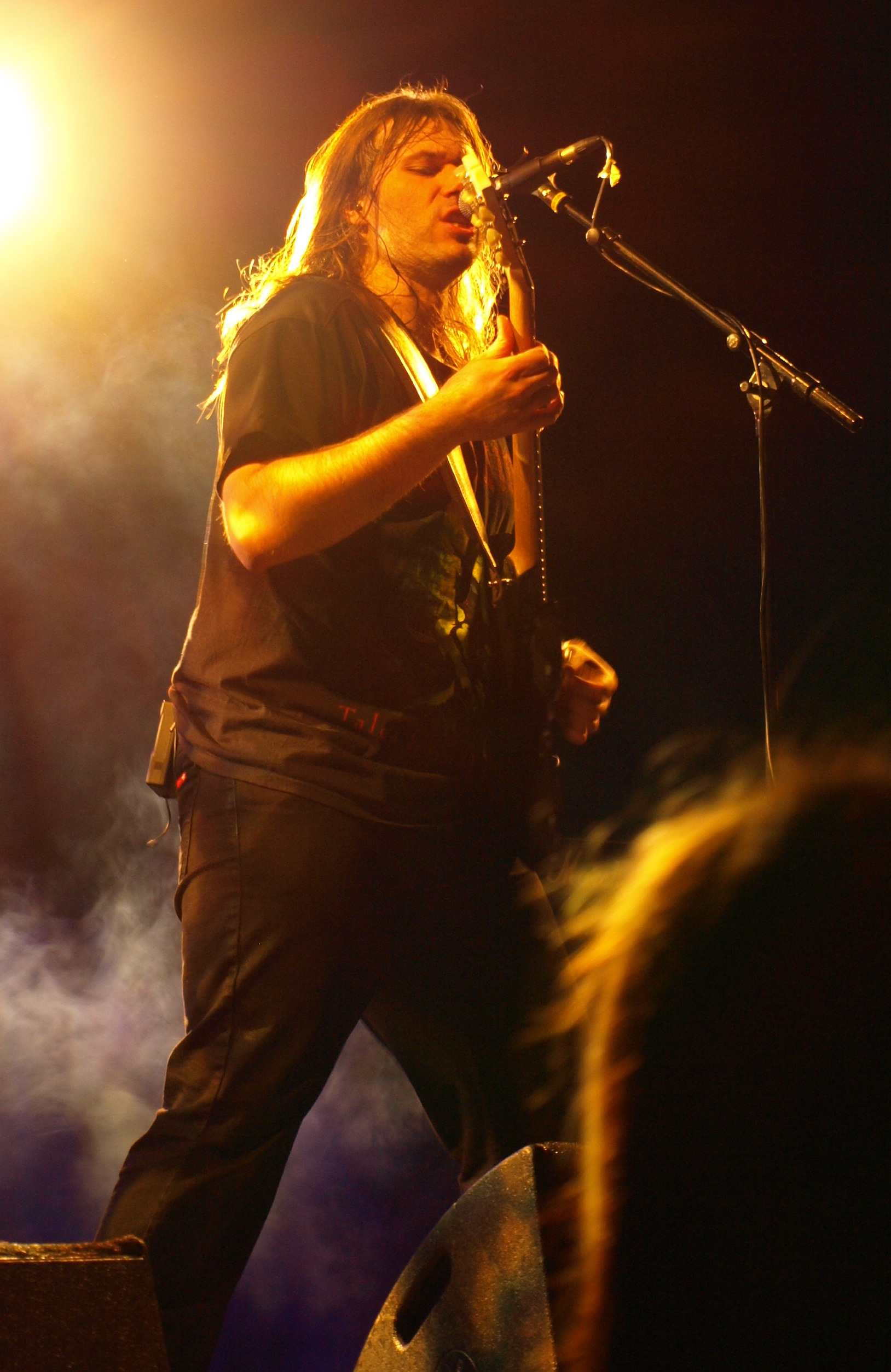 Swedish progressive metal band Nightingale live at Nosturi, Helsinki